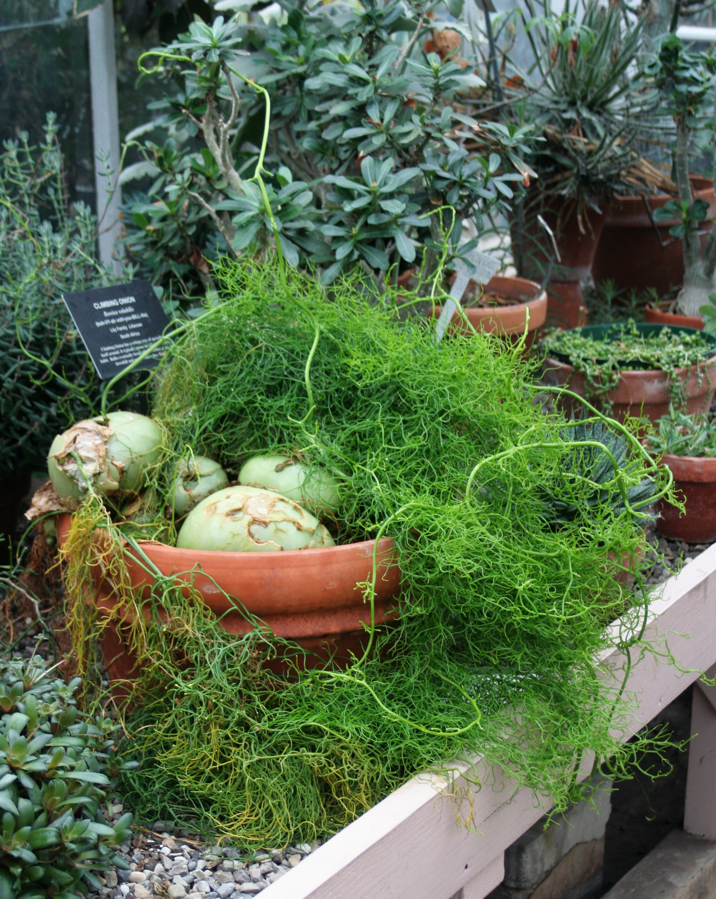 Bowiea volubilis (Climbing Onion) at the Buffalo and Erie County Botanical Gardens.